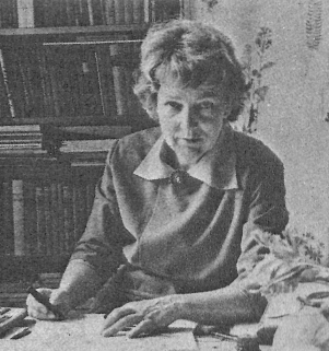 Photograph of the Finnish artist Maija Karma (1914–1999).